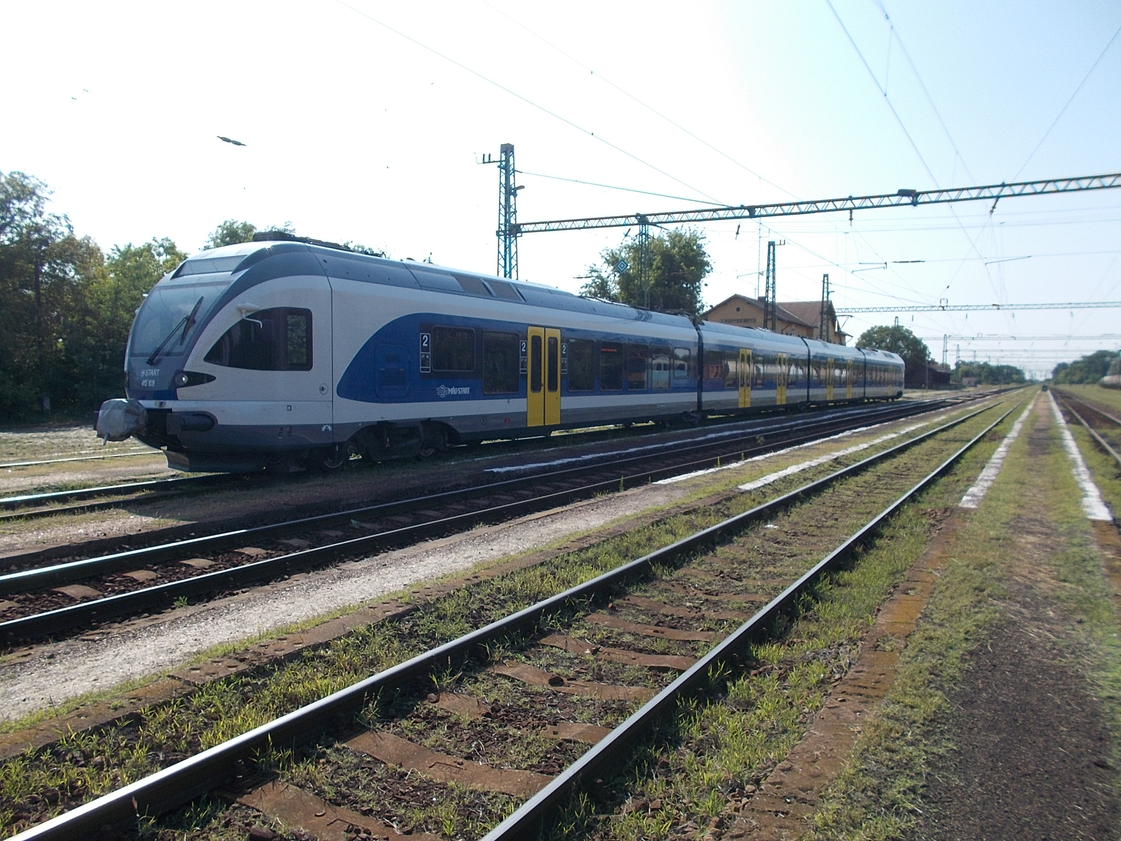 MÁV 415 at Kunszentmiklós-Tass railway station. - Kunszentmiklós, Bács-Kiskun County, Hungary.